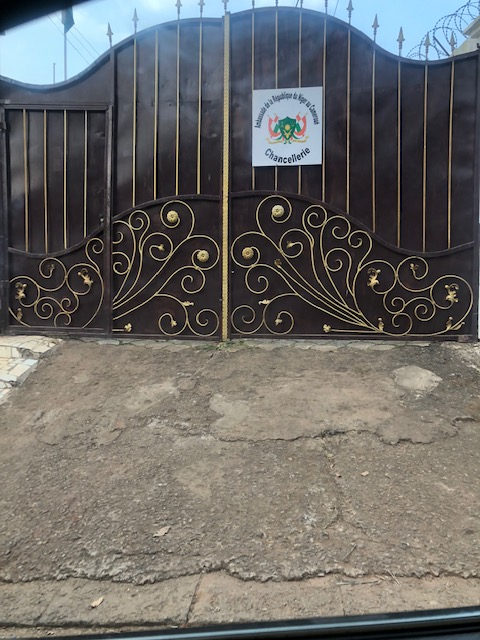 Embassy of Niger in Yaoundé, Cameroon